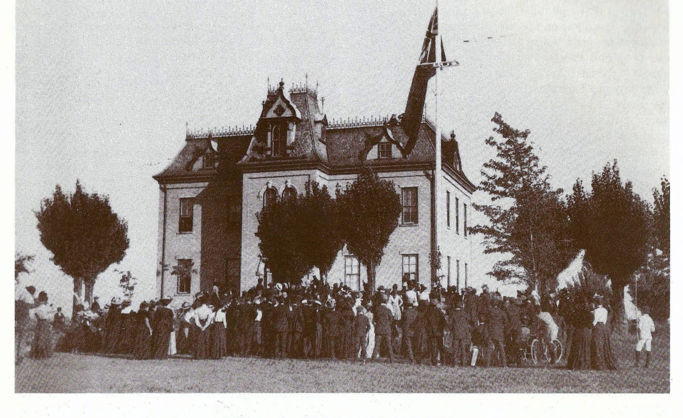 khs 1867